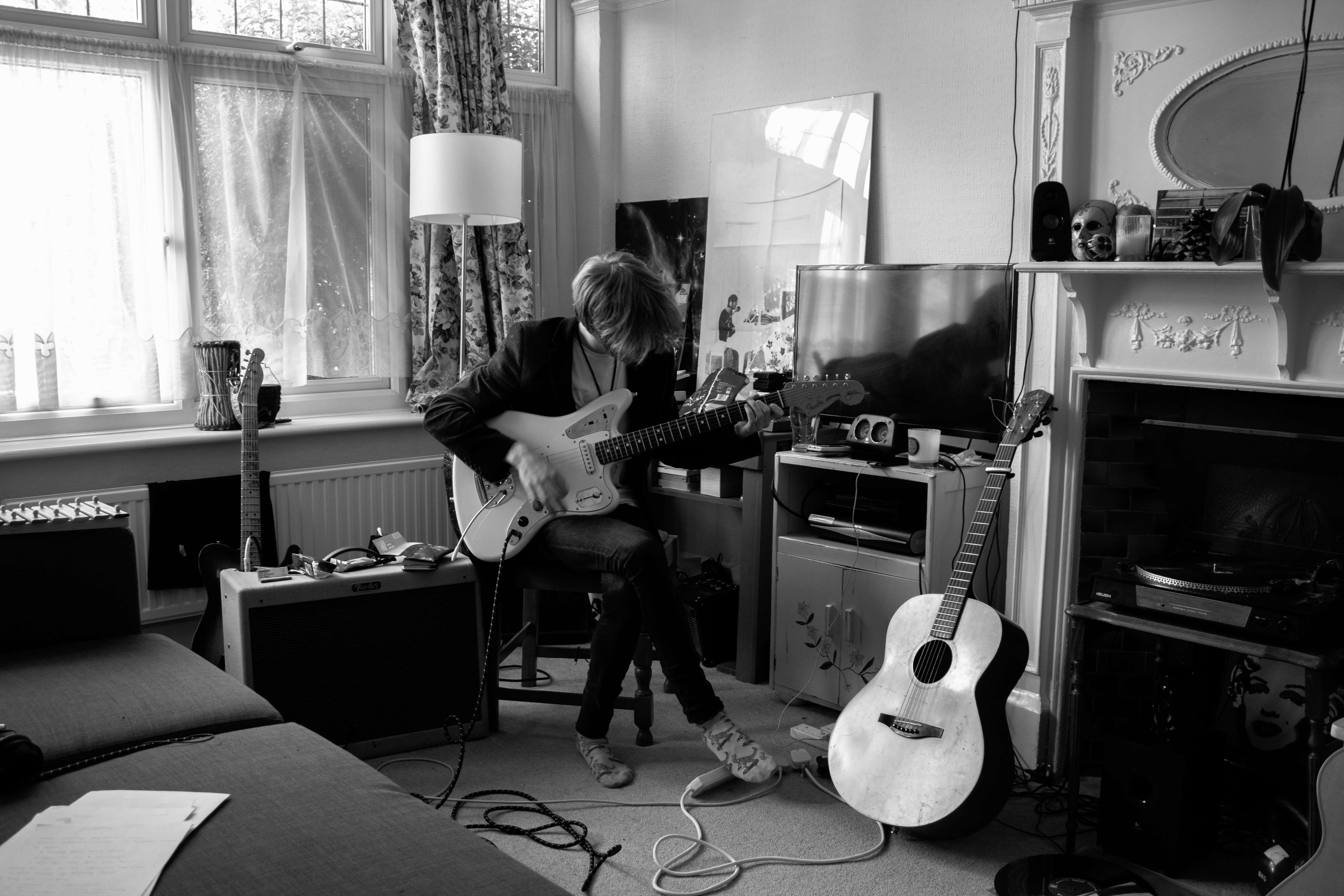 Aaron Shanley at home in London, 2016